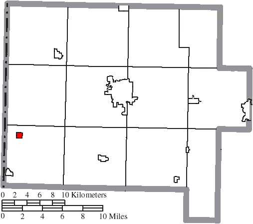 Map of the municipal and township boundaries of Van Wert County, Ohio, United States, as of the 2000 census, with the location of the village of Wren highlighted. Township borders are shown only in unincorporated areas in order to differentiate incorporated and unincorporated areas more clearly.